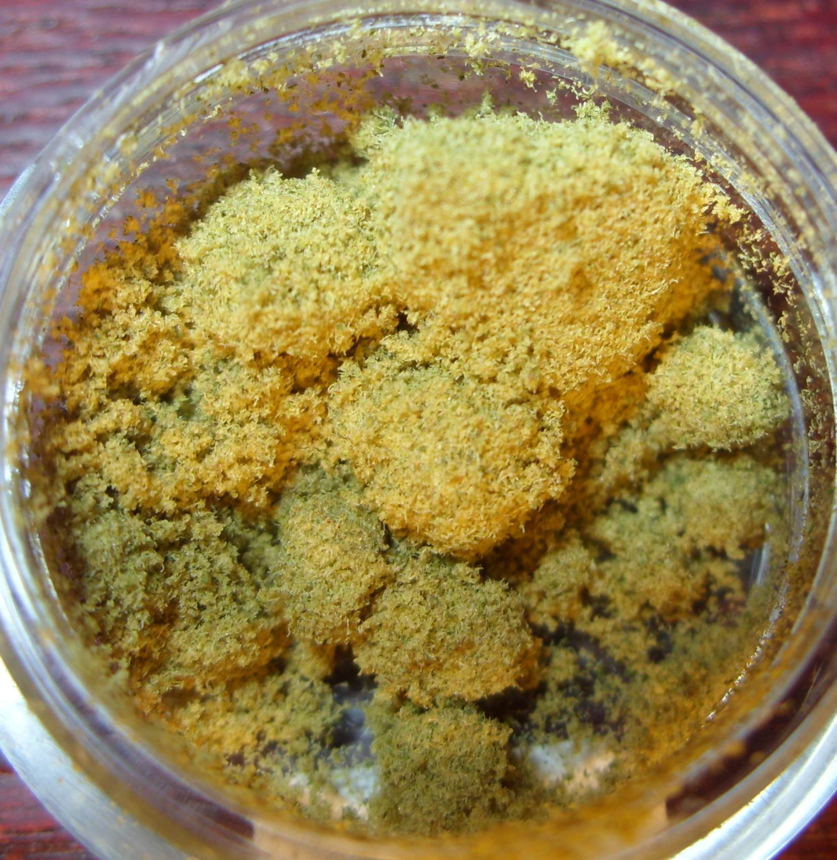 One gram of sifted cannabis trichomes, commonly called Kief, Keef. From the Lucky Jack sativa strain